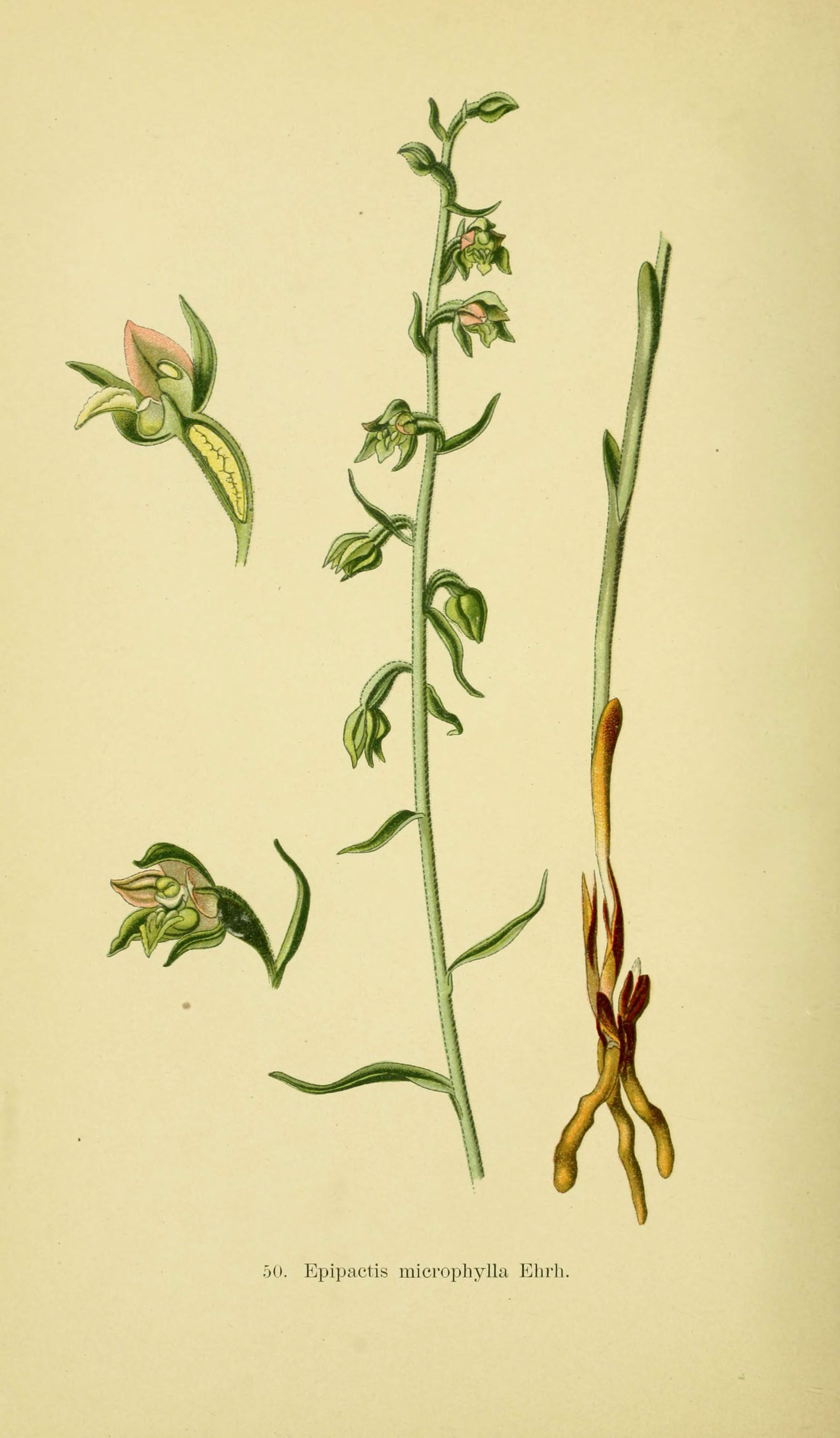 50. Epipactis microphylla Ehrli.